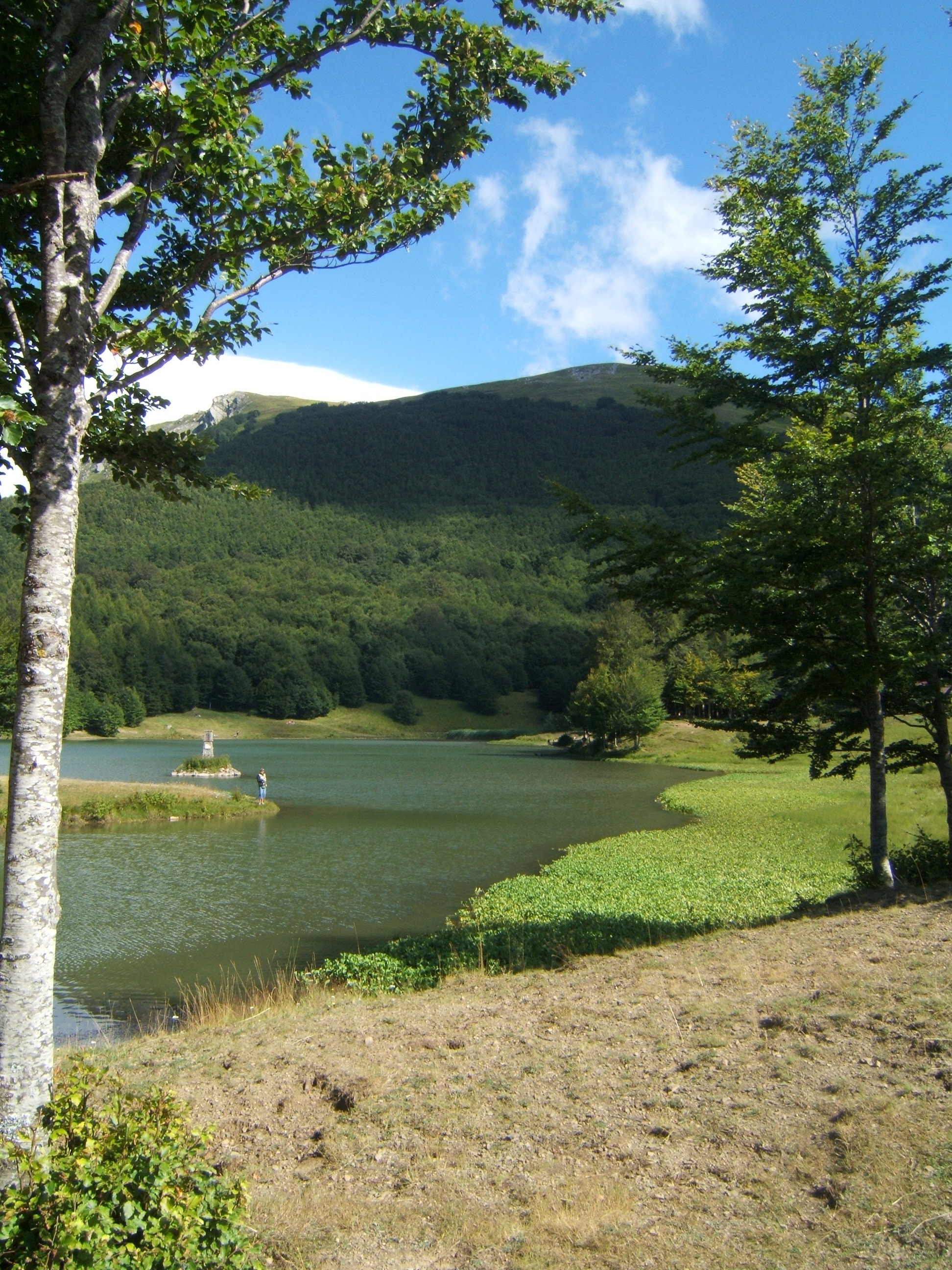 Lago Calamone